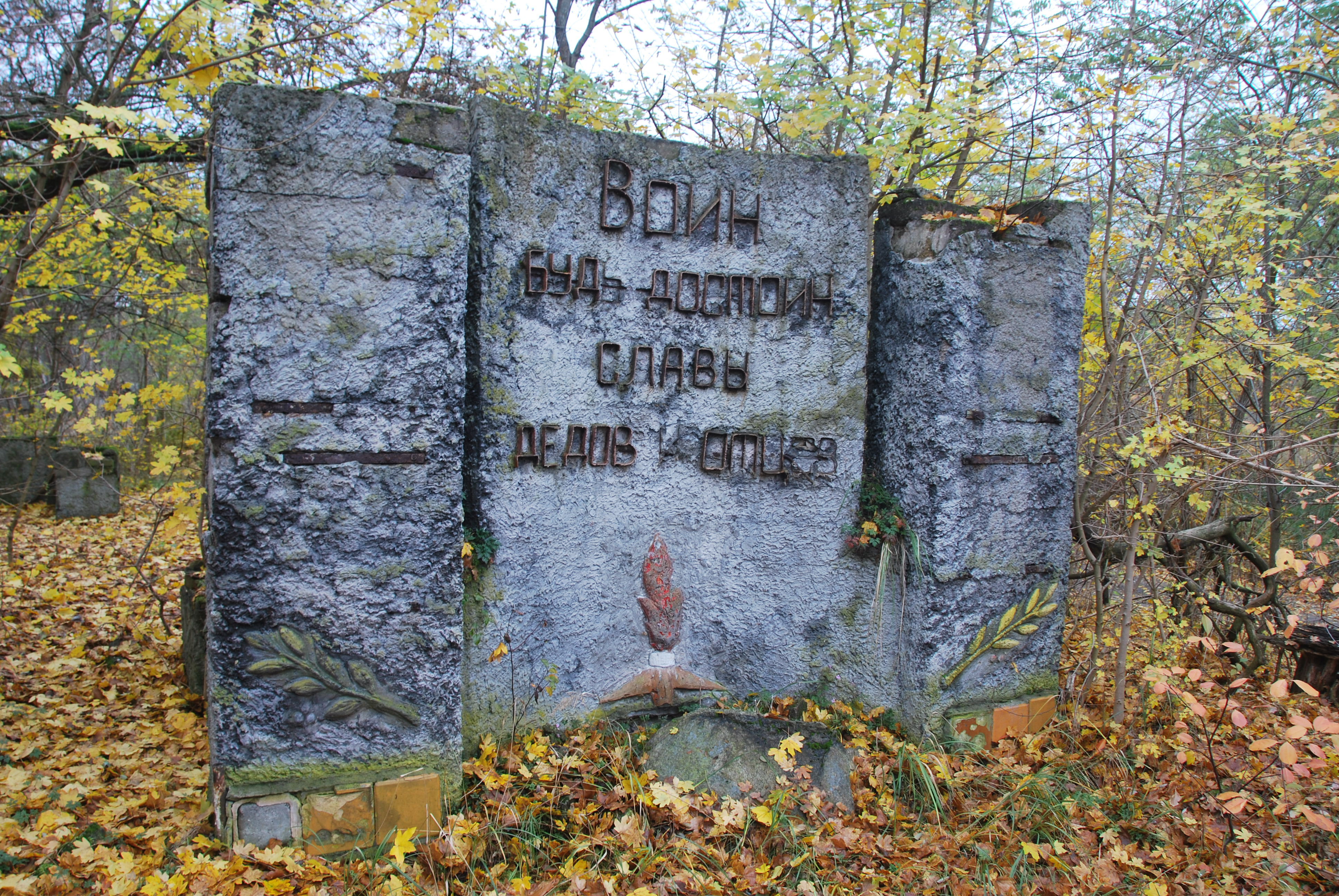 Soviet memorial in Strachów